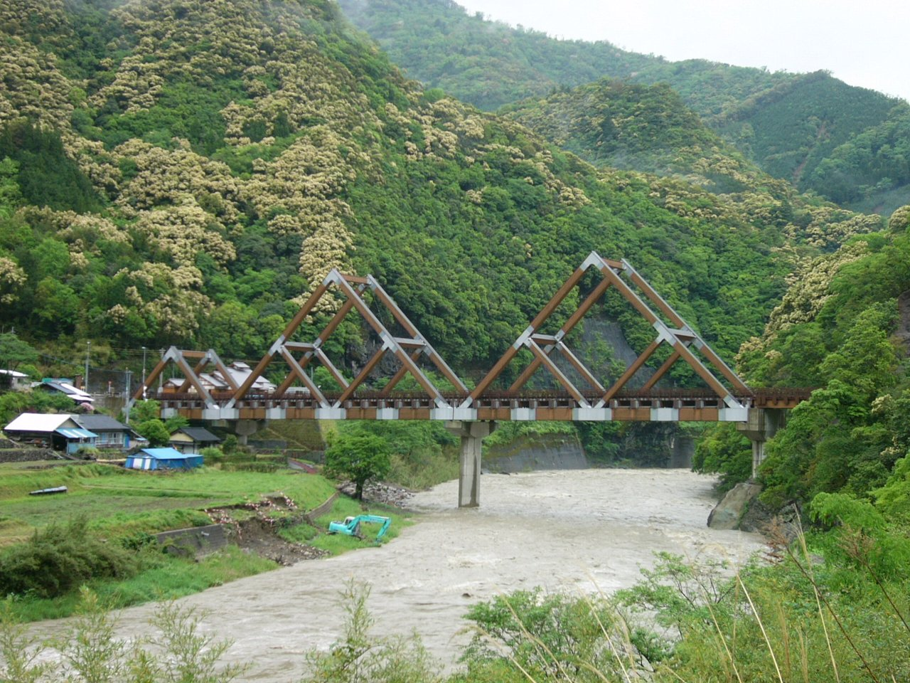 Karikobouzu bridge, Nishimera, Miyazaki, Japan, over Hitotsuse river. The bridge has the longest span as a wooden road bridge in Japan.